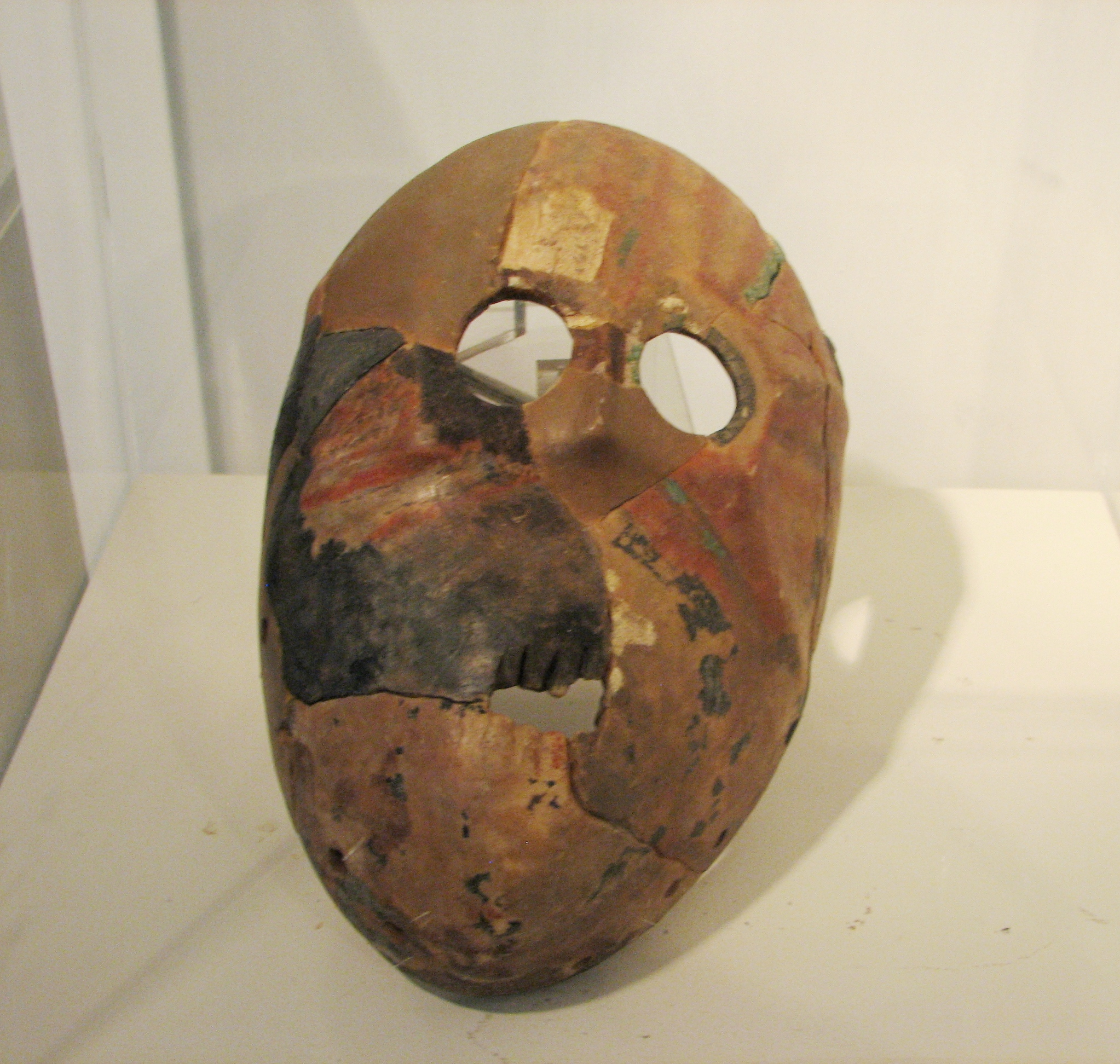 Moshe Stekelis Museum of Prehistory exhibition. Stone Mask Nahal Hemar Cave. Pre-Pottery Neolithic B period. Replica